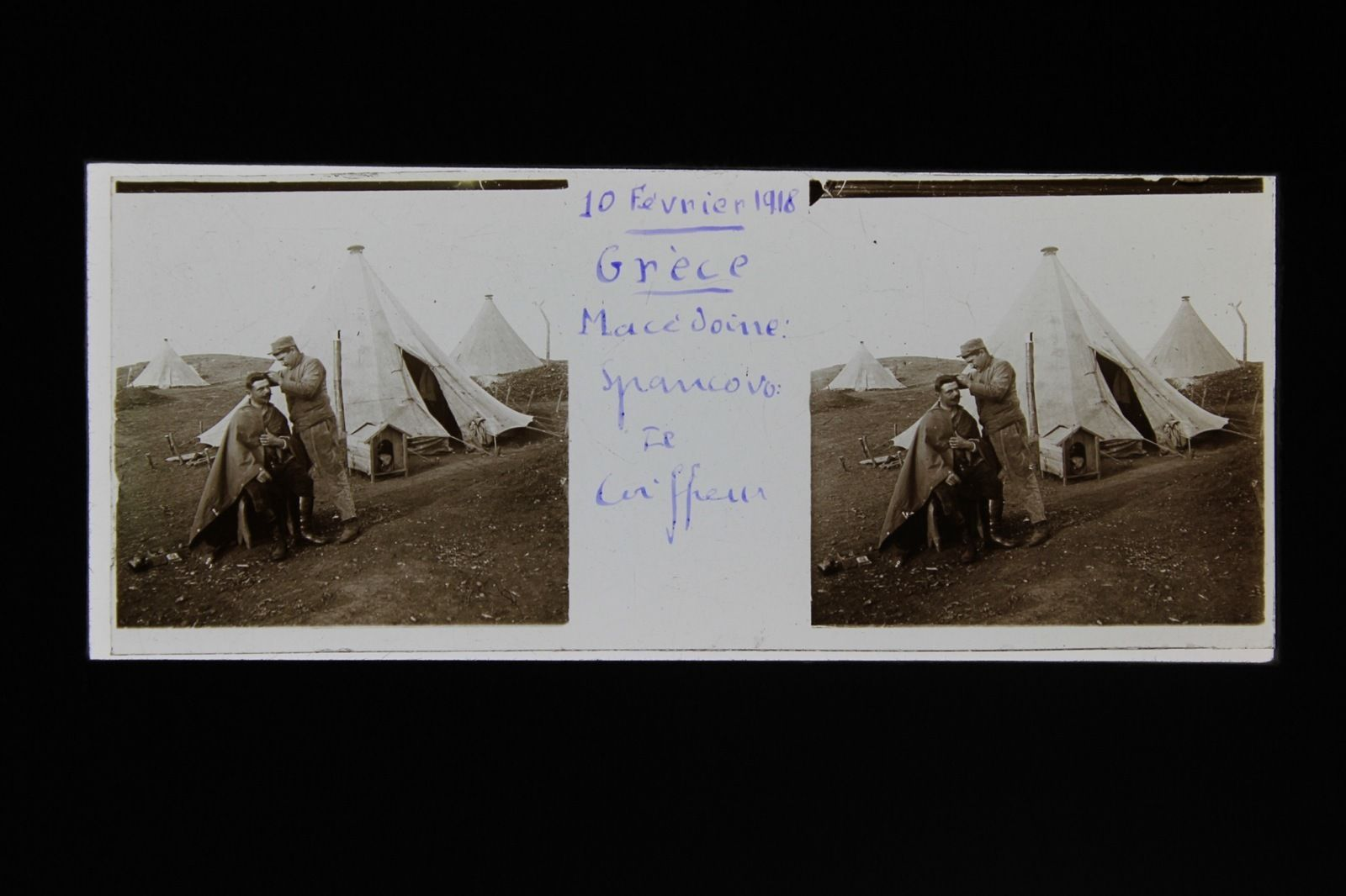 Spanchovo 1918 French Troops